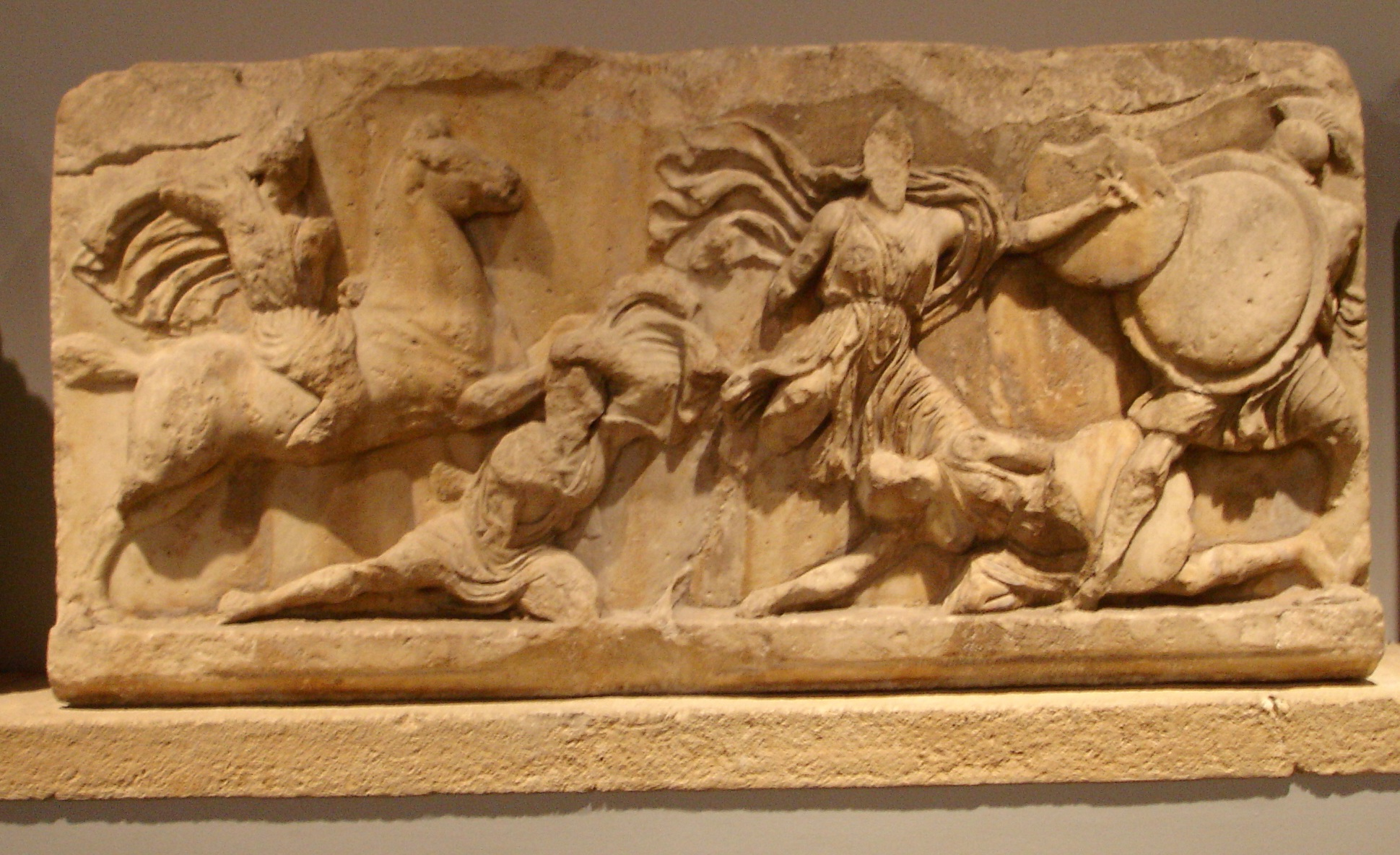 Amazonomachy. Block from the frieze running around the top of the podium of the Mausoleum at Halicarnassos.